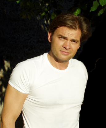 French actor Clovis Cornillac in 2008.